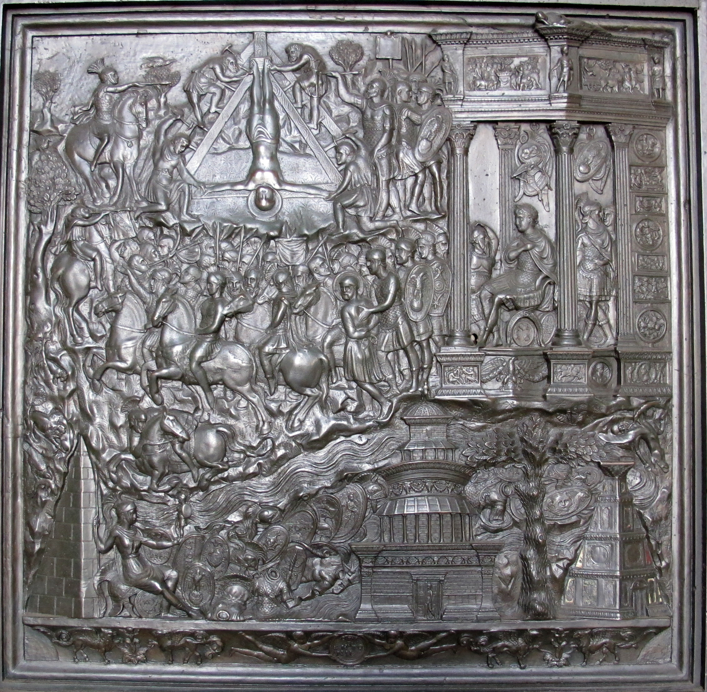 Filarete Doors - Frames